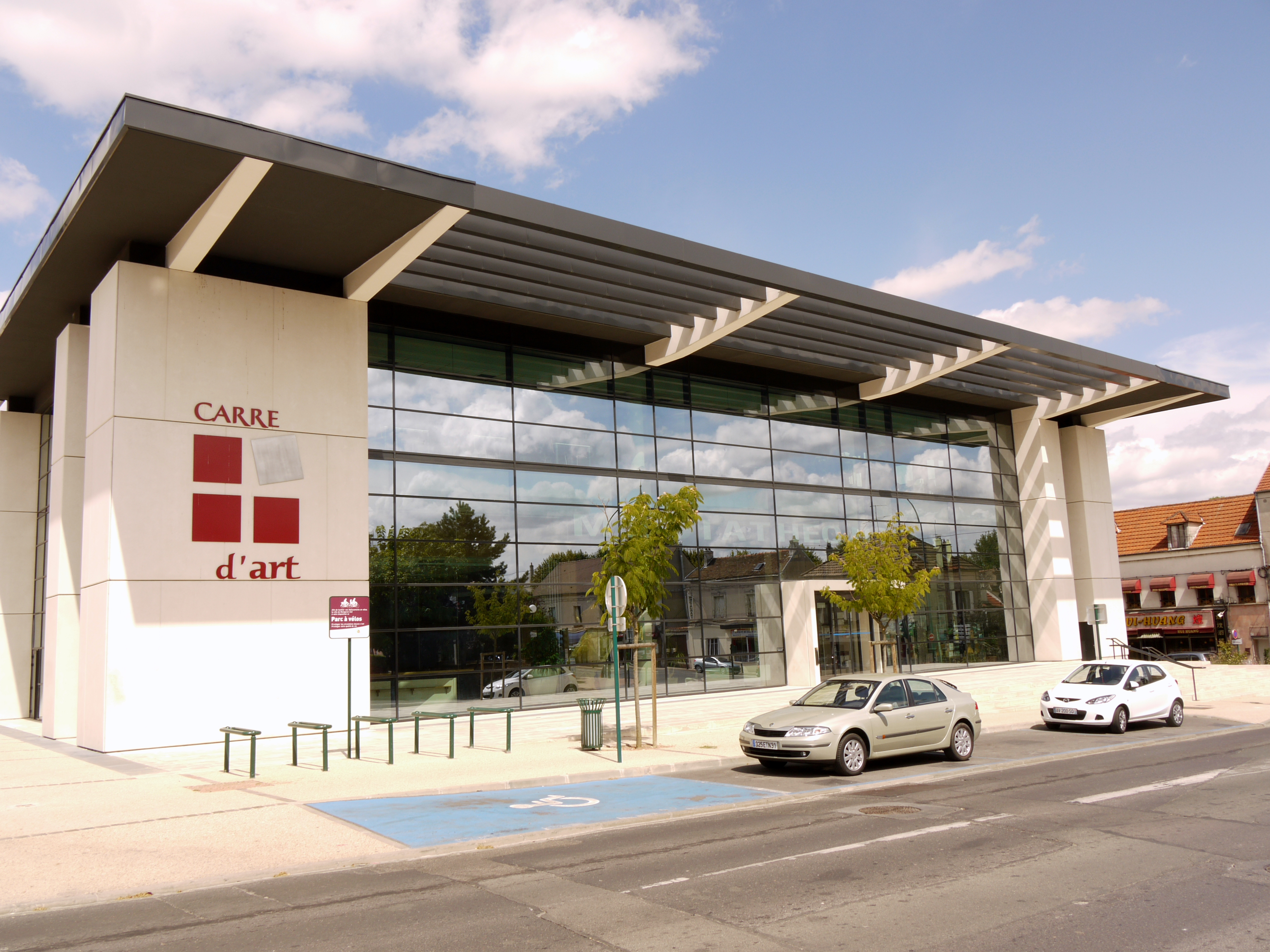 Mediacenter of Montgeron